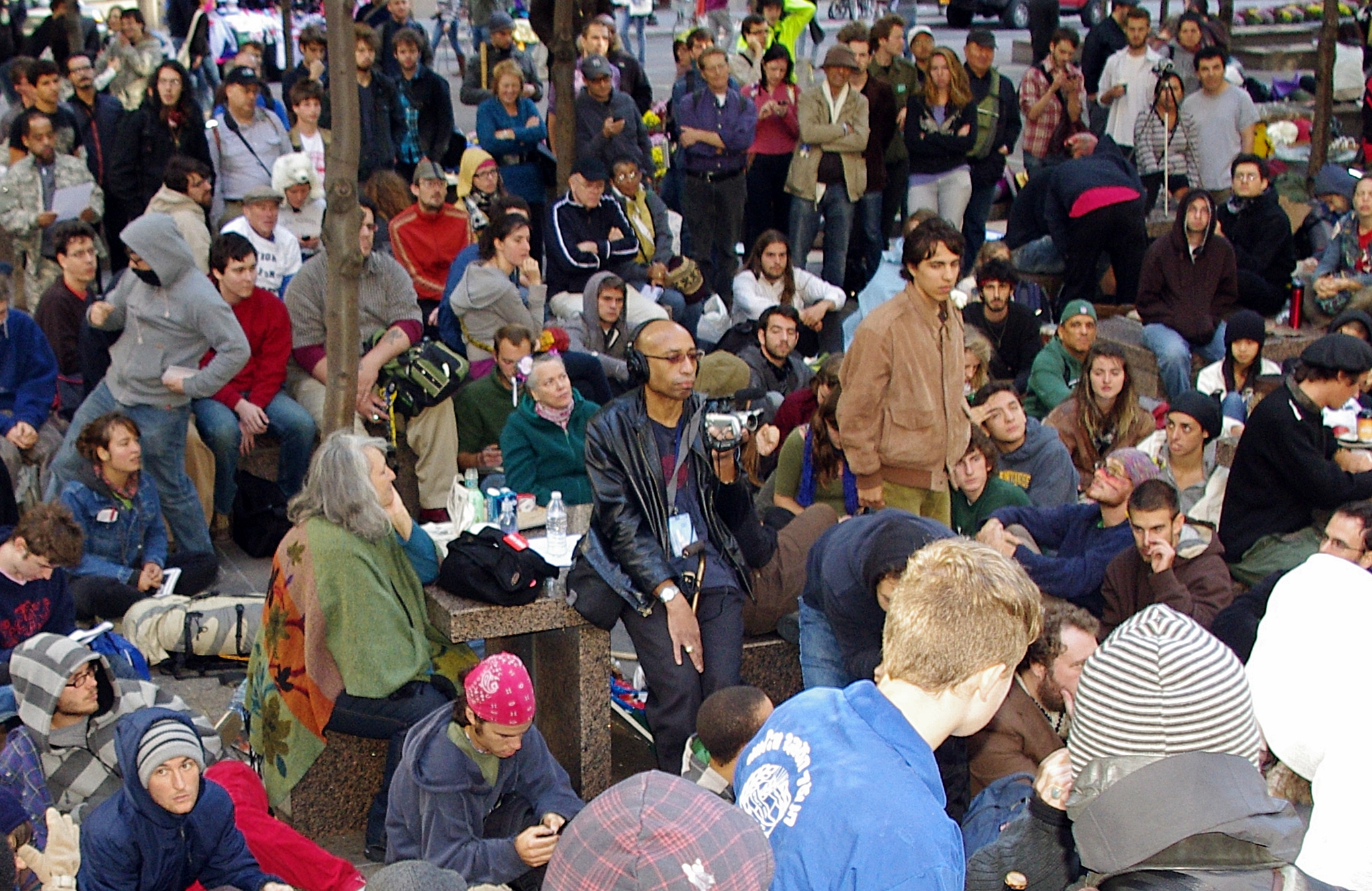 Day 2, September 18, of the protest Occupy Wall Street, a protest against corporatism and the influence of money in government that aims to occupy New York's financial district for several months, and supported by Anonymous and AdBusters. The protest started on Saturday, September 17.